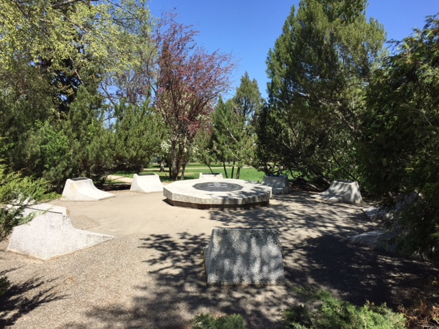 Scouts Canada Monument, Regina, Saskatchewan